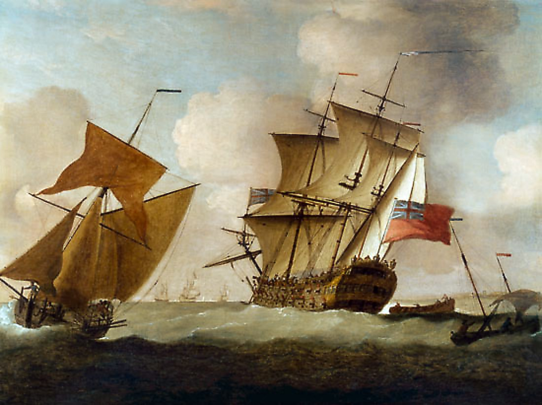 "A Third-rate joining her Squadron off Elizabeth Castle, Jersey"